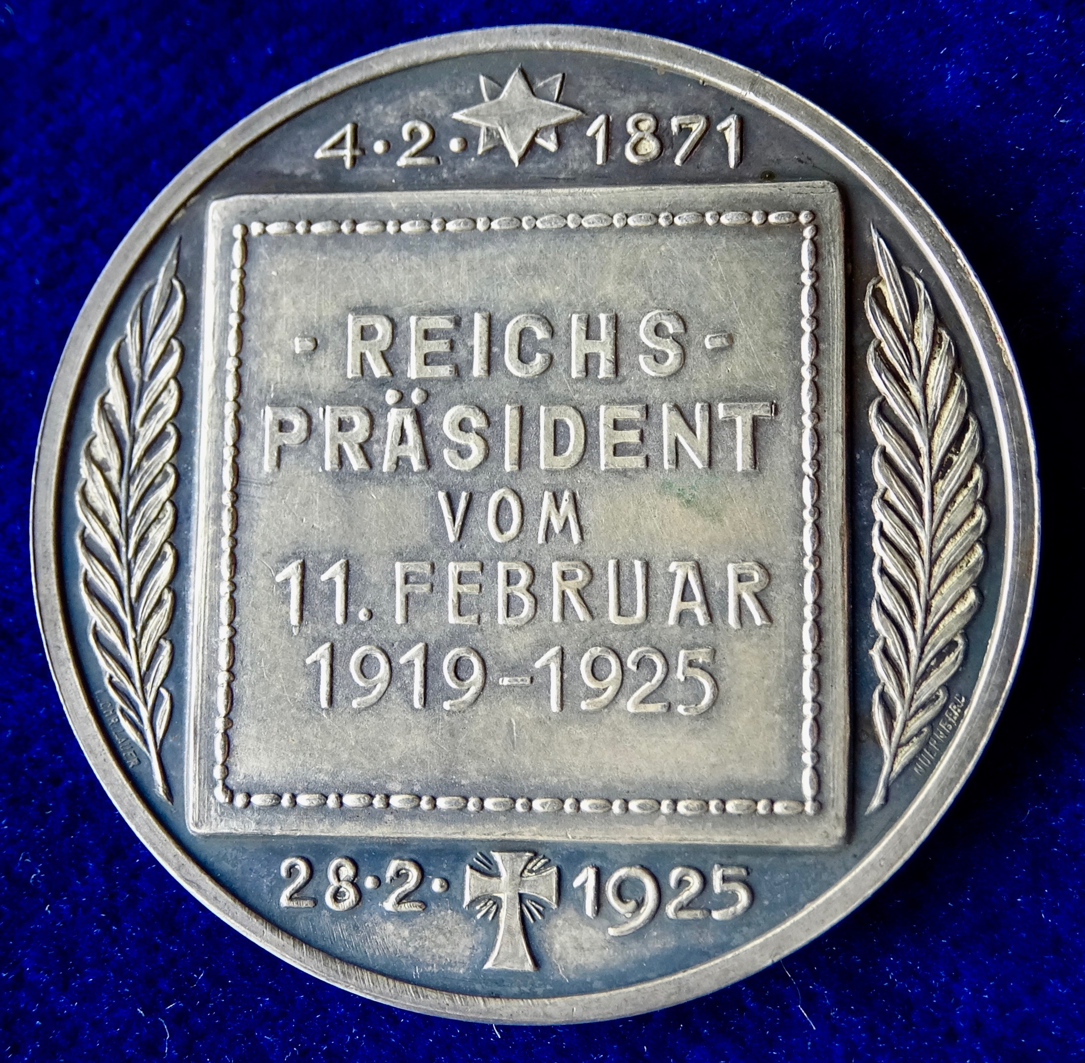 Germany, Death of Friedrich Ebert Silver Medal by Hummel 1925 Medallion d. = 33 mm. 14.77 g Ag 0.990 fine Silver Ebert, Friedrich, 1871 Heidelberg - 1925 Berlin Around portrait r.: "REICHSPRÄSIDENT FR. EBERT"/ 5 lines in square below "4· 2· 1871" his birthday: "· REICHS · PRÄSIDENT VOM 11. FEBRUAR 1919 - 1925". 1 line below: "28· 2· 1925" Medallist: AH (August Hummel), 1866 Stuttgart - 1933 Nürnberg Condition: EXTREMELY FINE+.